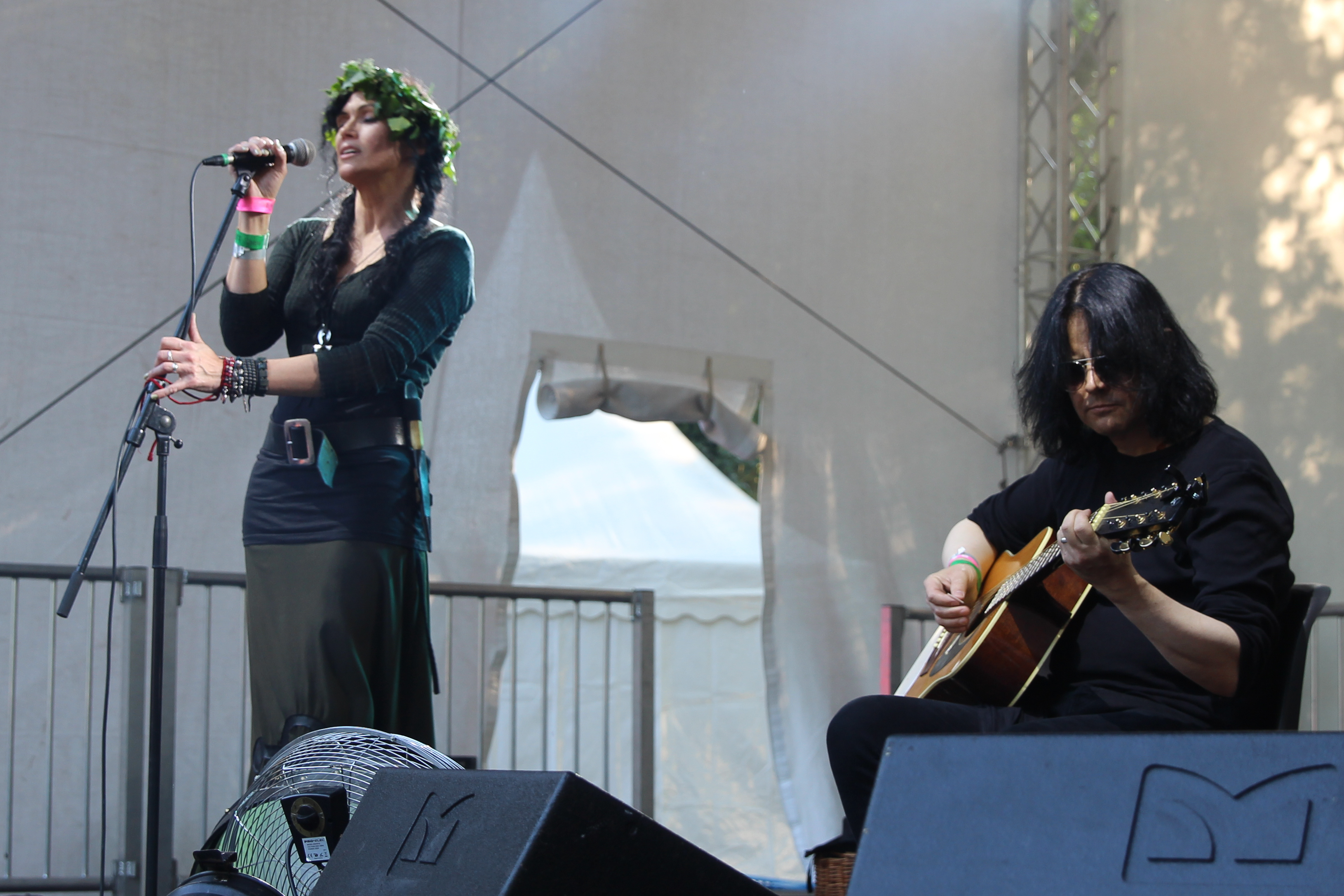 Inkubus Sukkubus at the Wave-Gotik-Treffen 2014. Candia Ridley und Tony McKormack (Inkubus Sukkubus) im Heidnischen Dorf